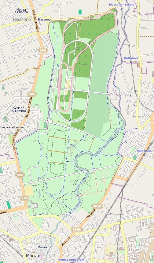 Map of "parco della Villa Reale di Monza"